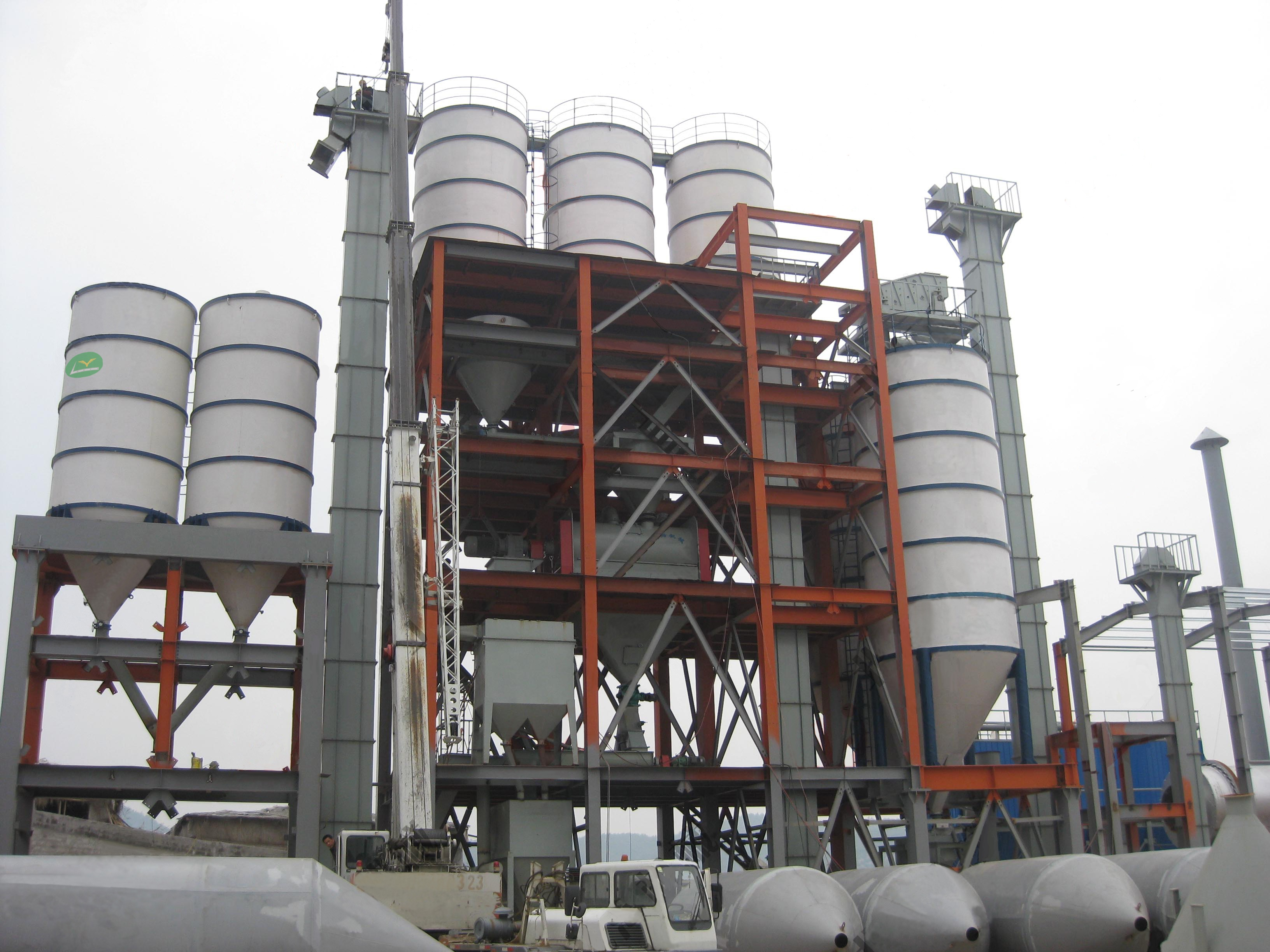 Dry mortar production line at worksite.